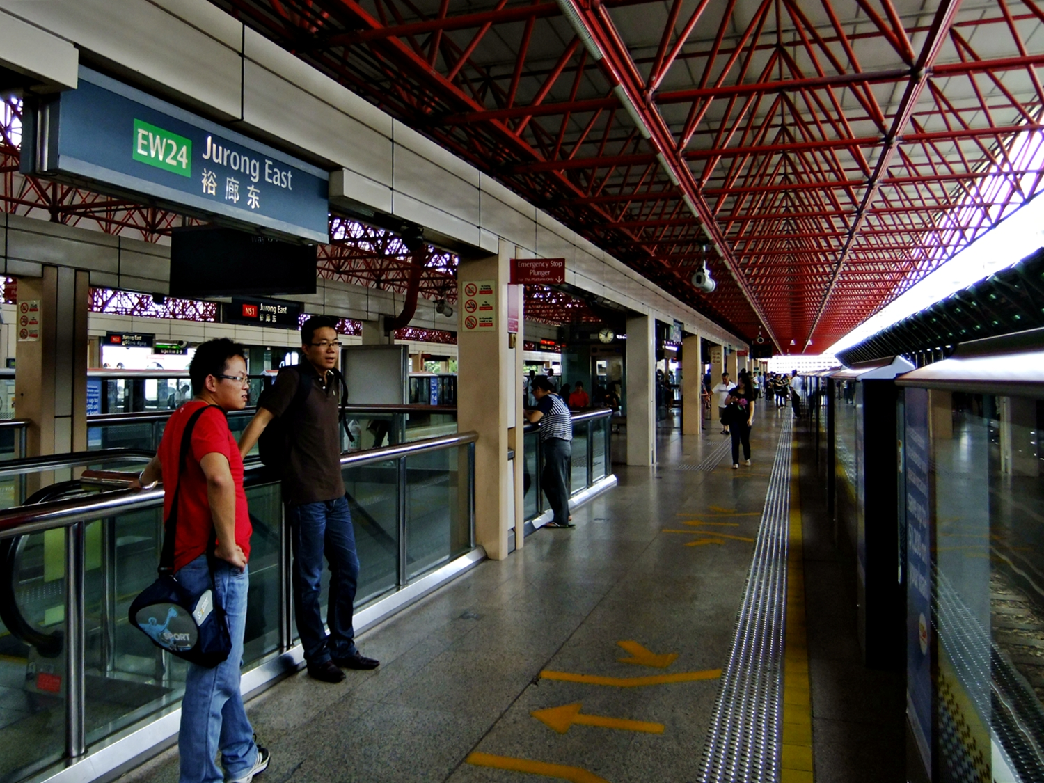 Jurong East MRT Station with PSDs